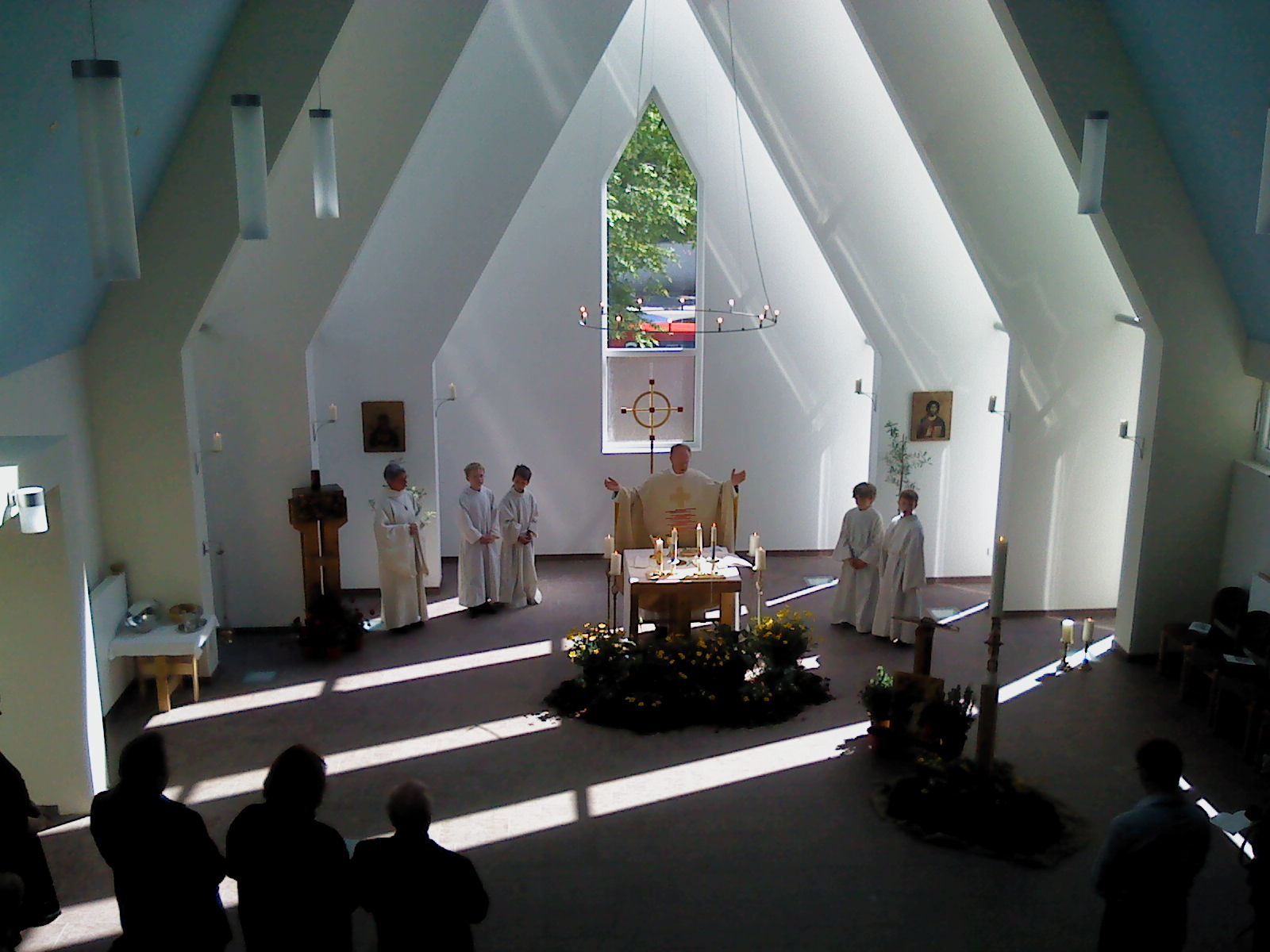 Interior of Old Catholic church, Hannover, Germany, during a Holy Eucharist service am 1 May 2011